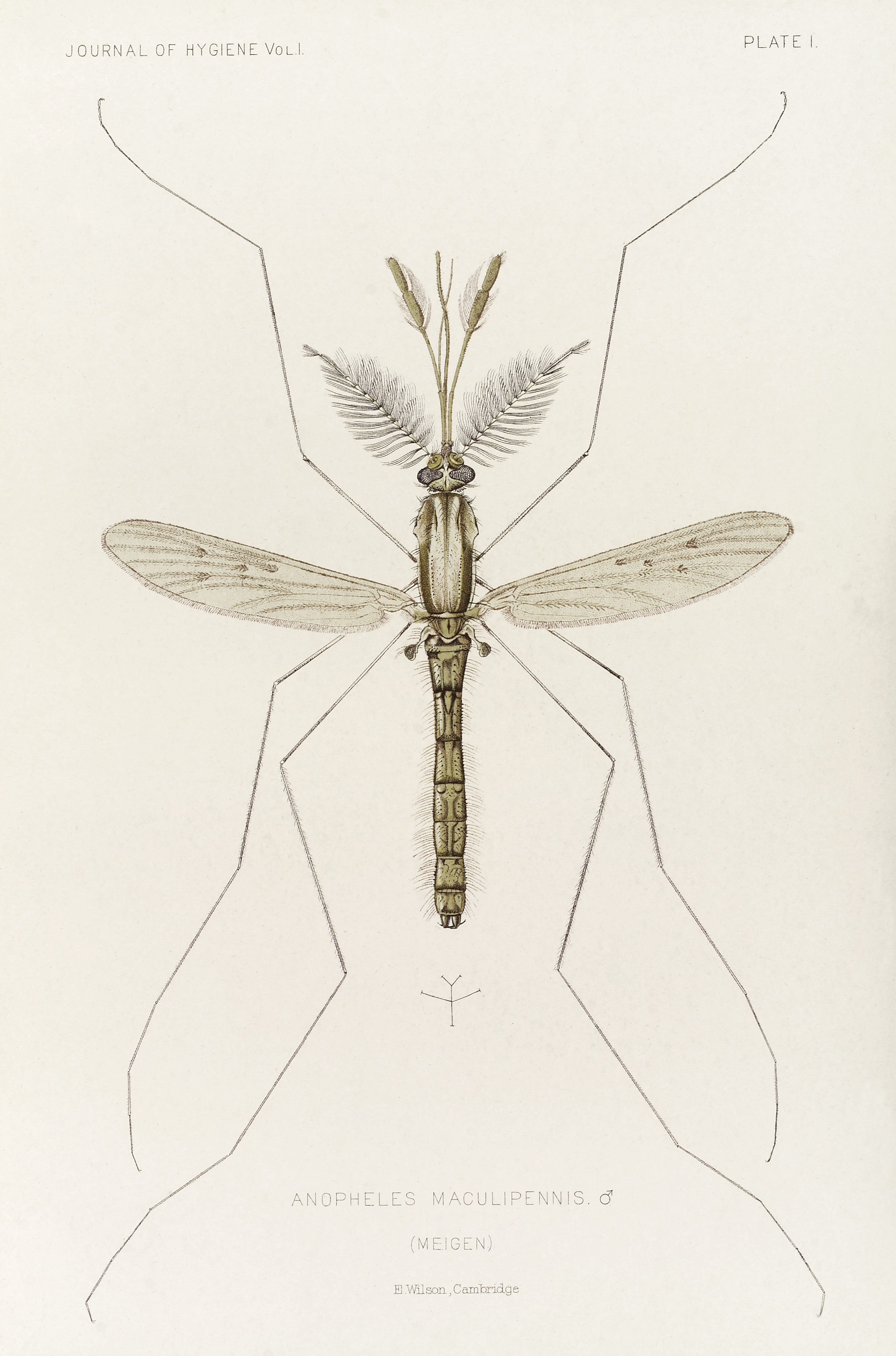 Male mosquito, Anopheles maculipennis, now re-classified Anopheles atroparvus. Mosquito species indigenous to Britain and capable of carrying the Plasmodium vivax parasite which causes benign tertian malaria (also historically known as agues or intermittent fever). It breeds in brackish water in coastal and estuarine areas and has a limited flight range. General Collections Keywords: Malaria; Insects; Infection; Insect; E Wilson; Mosquito; Infectious disease; Agues; Communicable Diseases